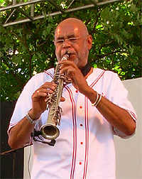 Reggie Houston at The 2006 Waterfront Blues Festival in Portland, Oregon. Photographed by Kristin Valinsky.